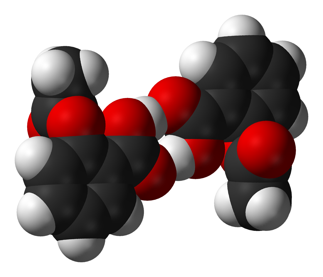 Space-filling model of a hydrogen-bonded aspirin dimer in the solid state. Single-crystal X-ray diffraction data from Kim, Y.; Machida, K.; Taga, T.; Osaki, K. (1985). "Structure Redetermination and Packing Analysis of Aspirin Crystal". Chem. Pharm. Bull. 33 (7): 2641-2647. ISSN 1347-5223.